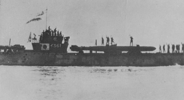 HIJMS I-361